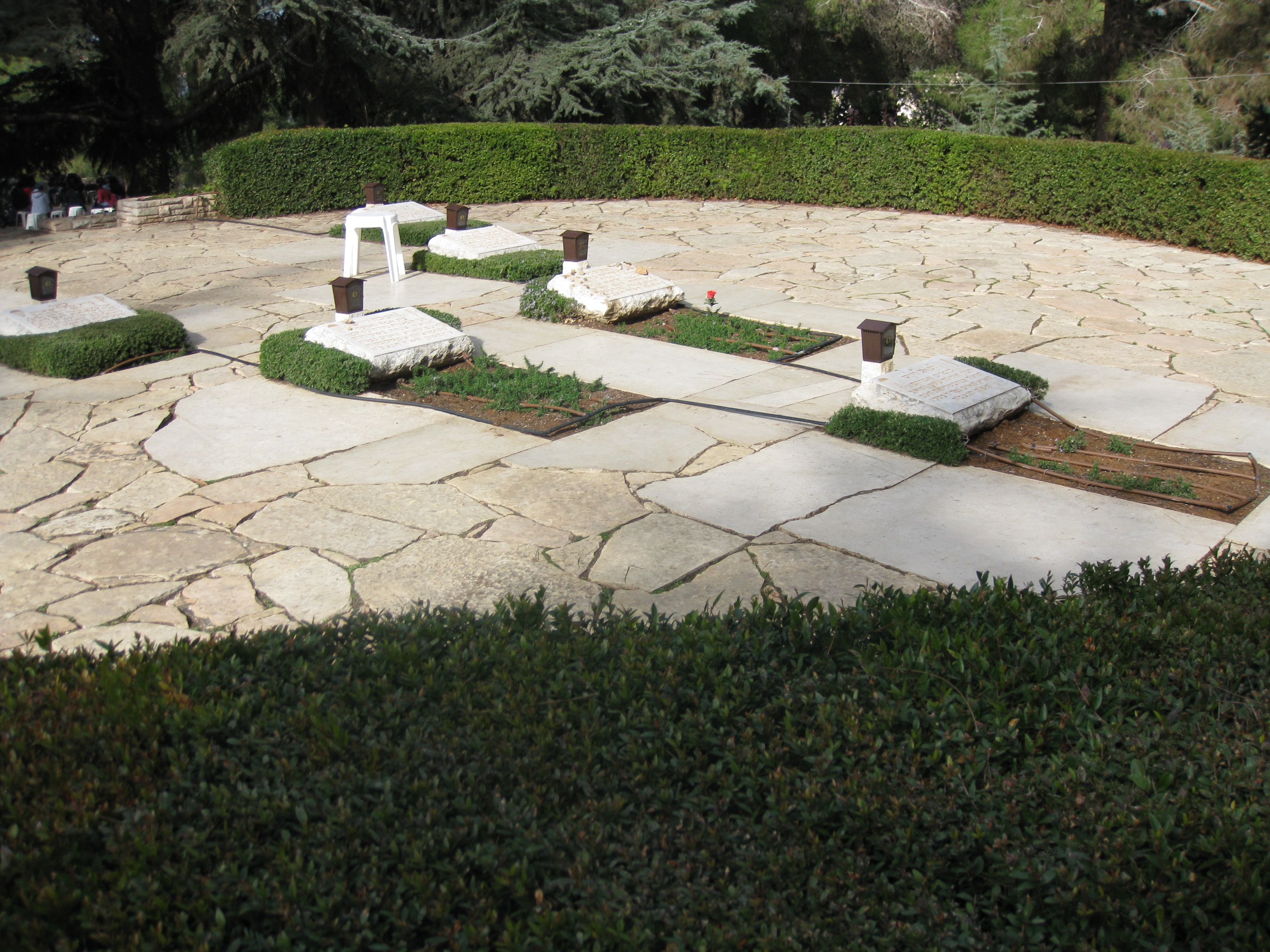 Memorial for the Yeshuv Paratroopers